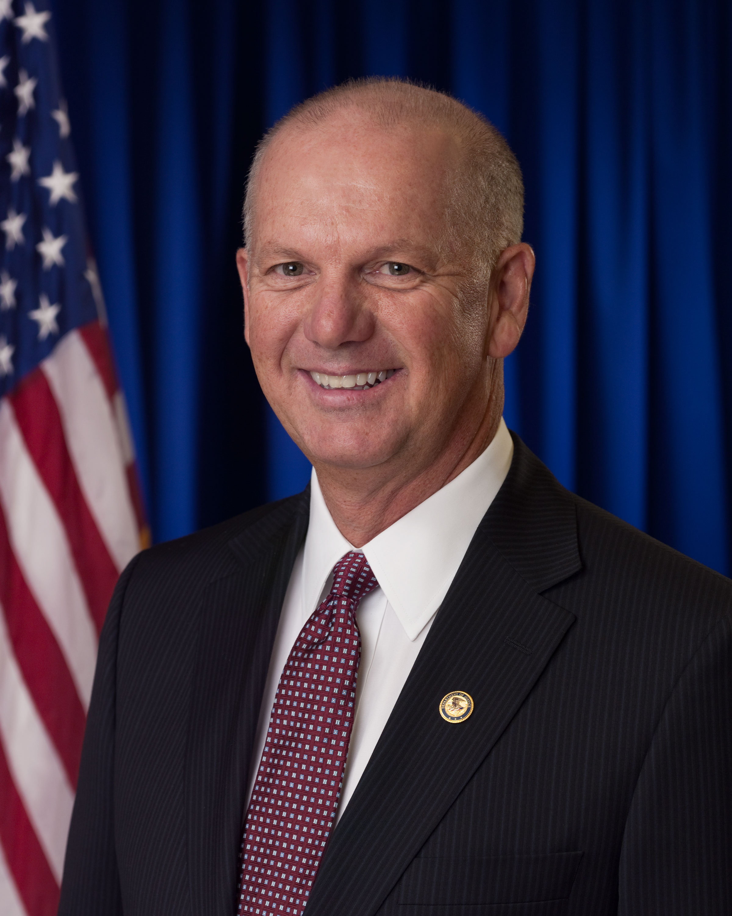 This is a portrait of David Hickton.